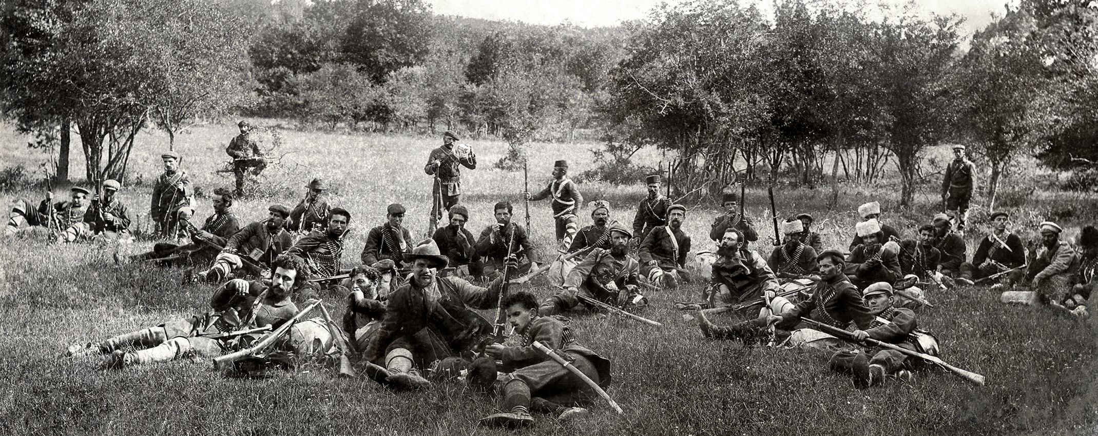 Cheta of Krastyo Bulgariata IMARO revolutionary